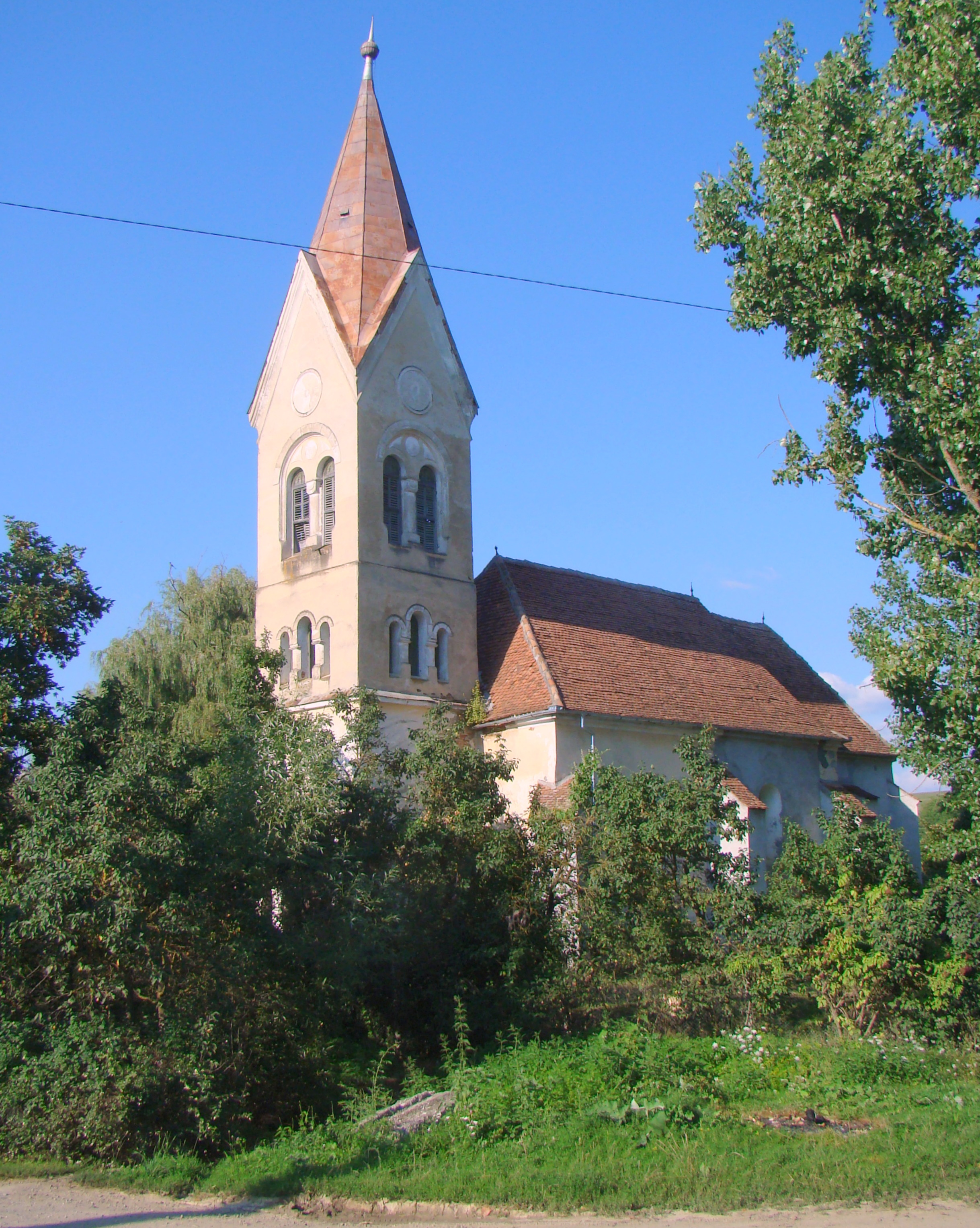 Lutheran church in Posmuș, Bistrița-Năsăud county, Romania